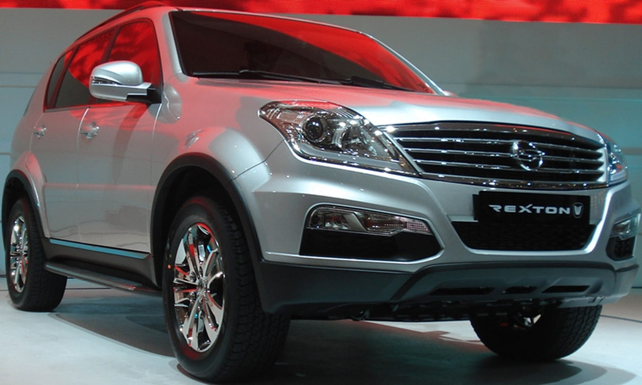 SsangYong Rexton W